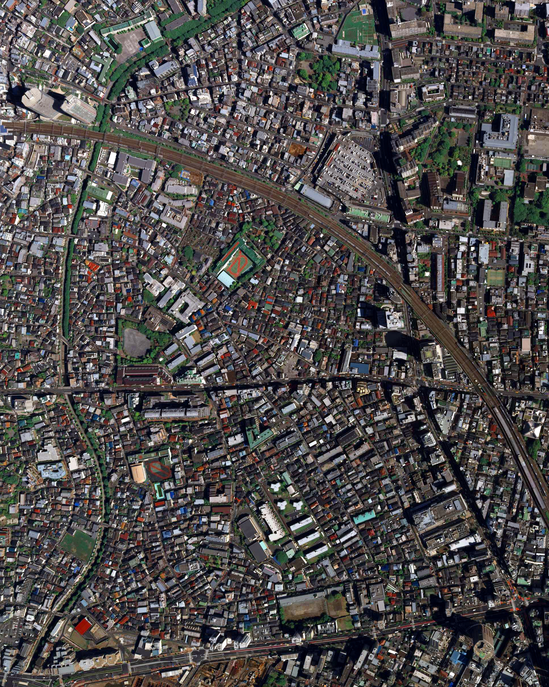 The Geographical Survey Institute took the aerial photograph in Shinjuku Ward, Tōkyō Metropolis on April 27, 2009.